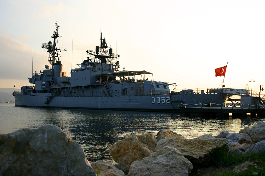 Gayret Museum located near İzmit Sailing Club.